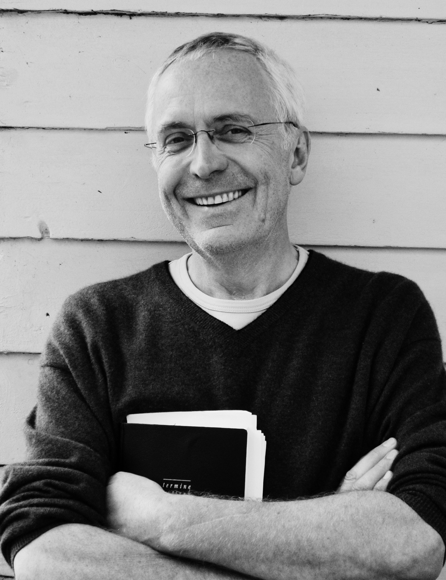 Portrait Hubertus Hamm